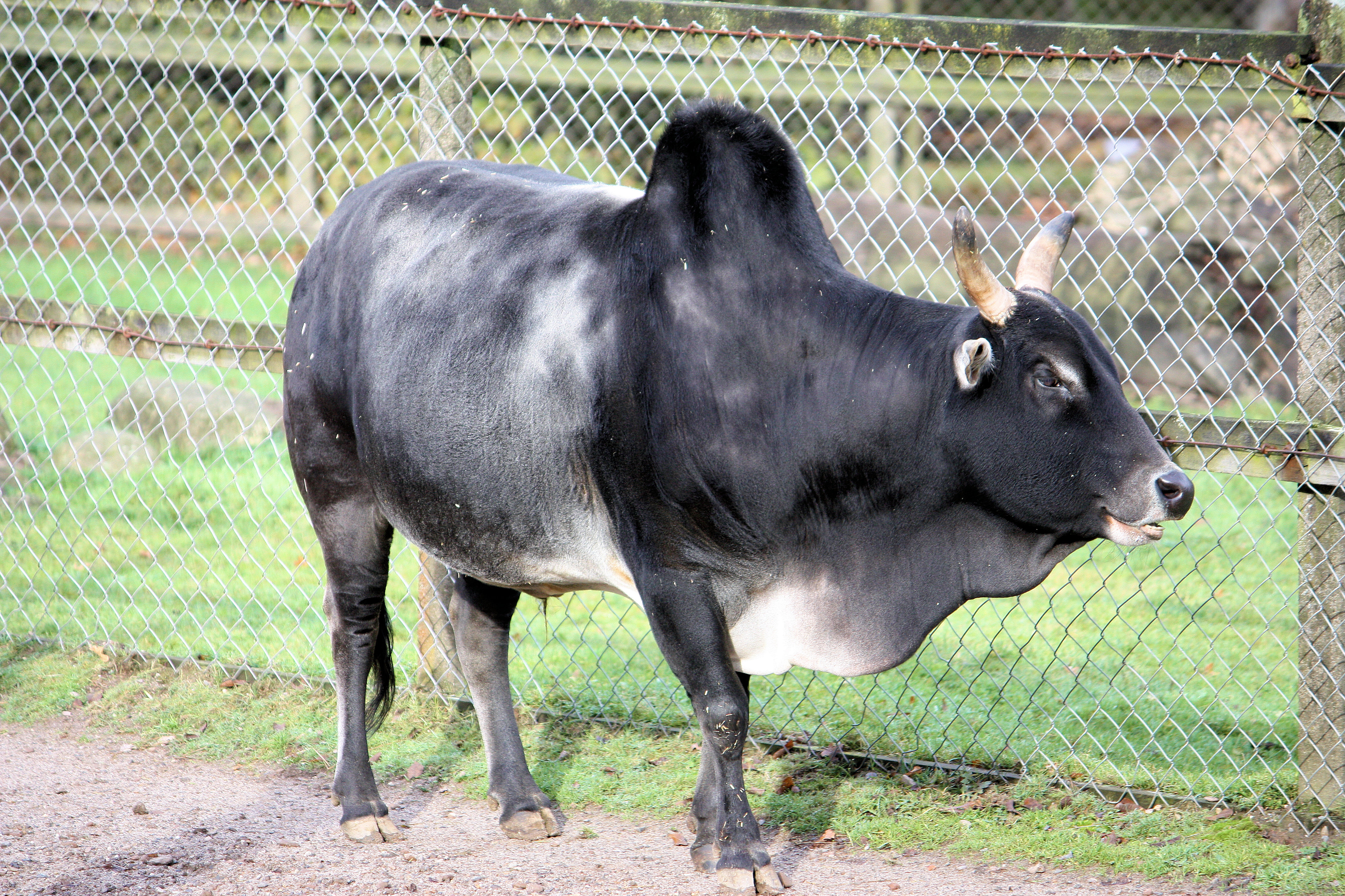 Bremen, Bürgerpark, dwarf zebu